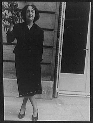 Title: Portrait of Marie-Laure de Noailles Abstract/medium: 1 photographic print : gelatin silver.